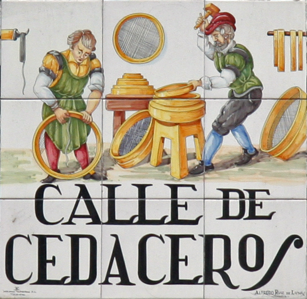 Sign of Calle de Cedaceros (street, Centro district) in Madrid (Spain).